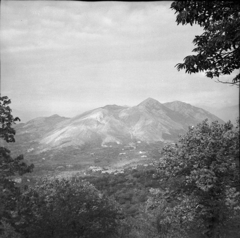 The Campaign in Italy, September-december 1943- the Allied Advance To the Gustav Line Monte Camino November - December 1943: View of Monte Camino during the early stages of the first assault by the British 10th Corps.